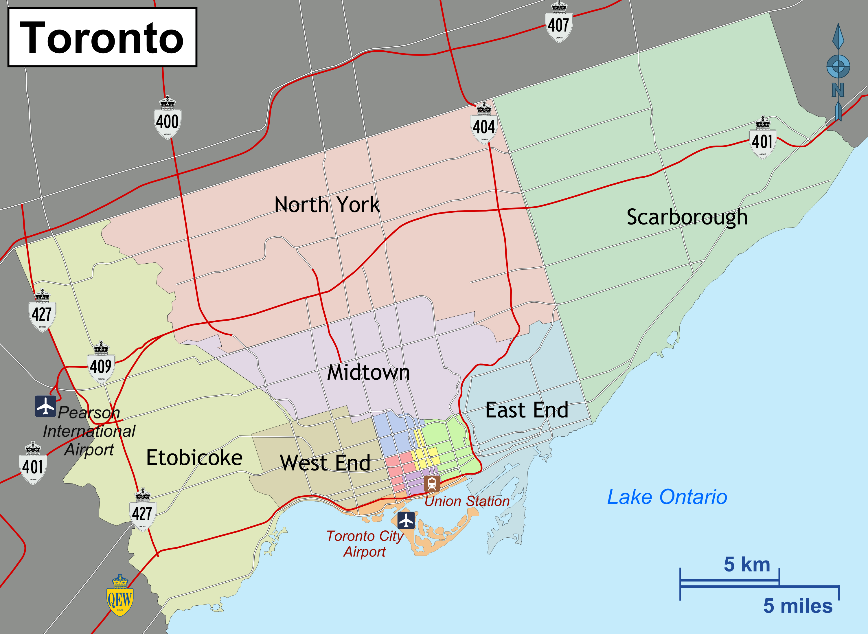 Wikivoyage-style map of travel districts for Toronto travel guide.